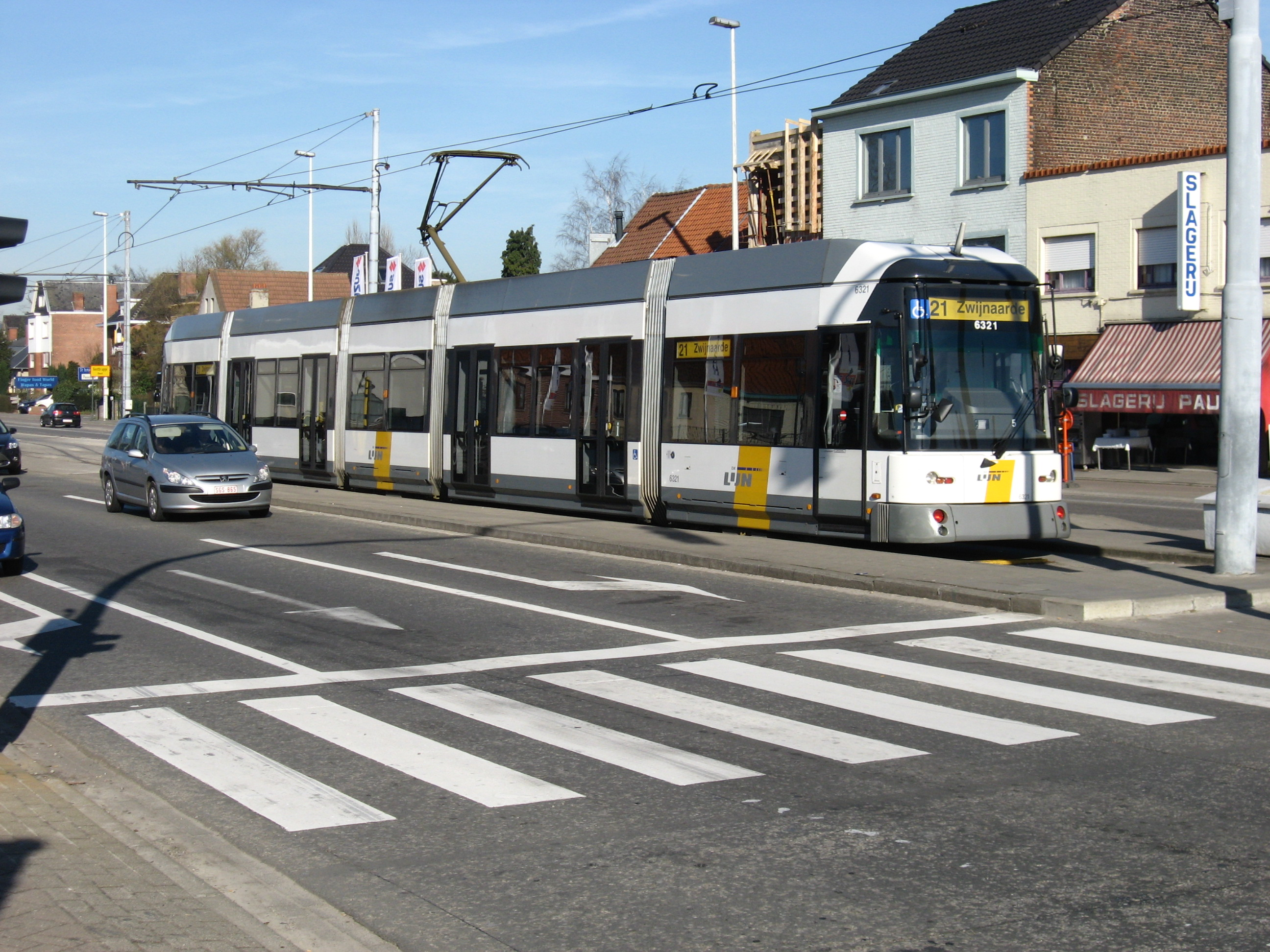 Tram endpoint of tramline 21 in Melle with a Hermelijn tram.